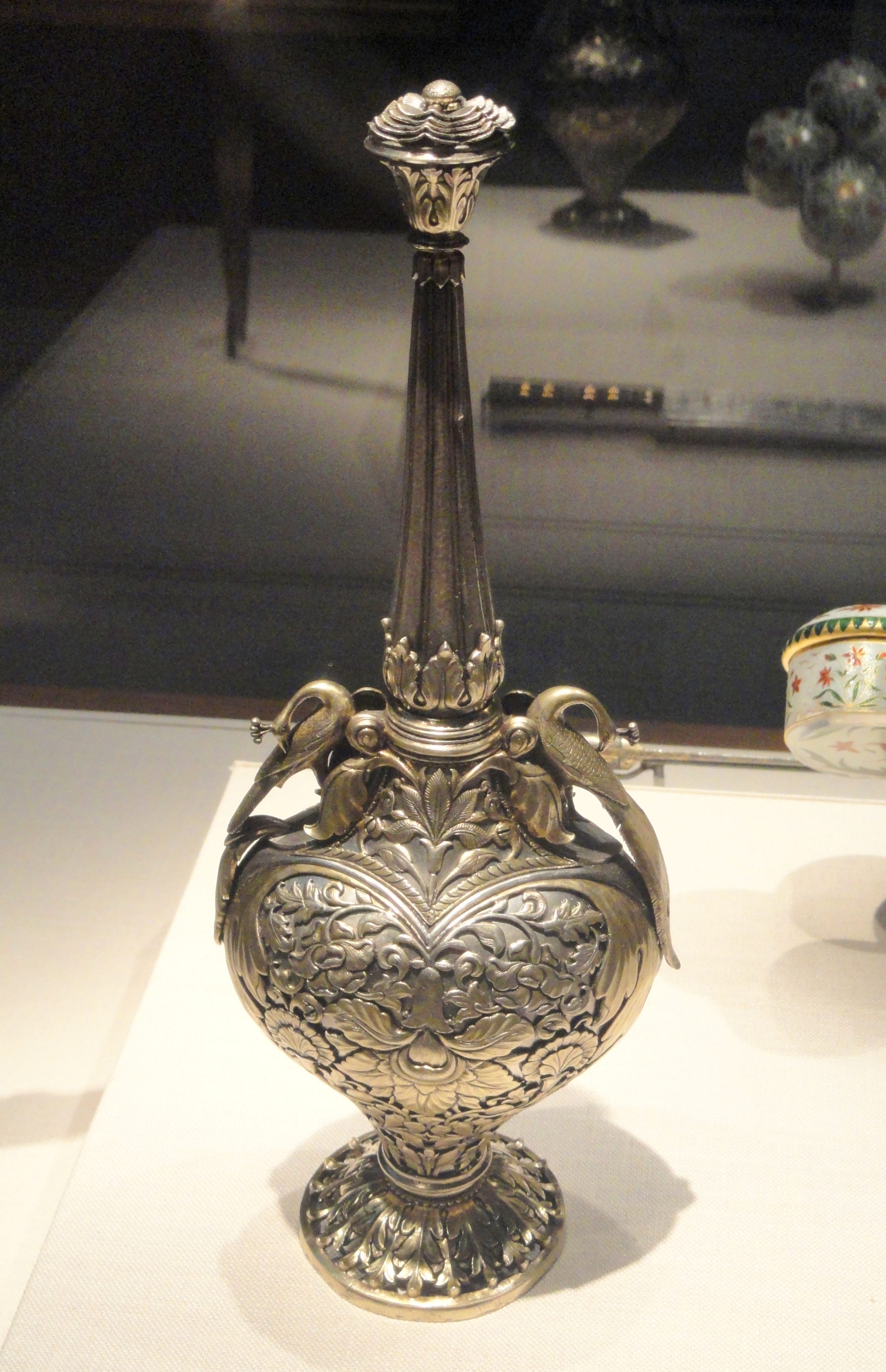 Exhibit in the Freer Gallery of Art, Washington, DC, USA. This artwork is old enough so that it is in the public domain.